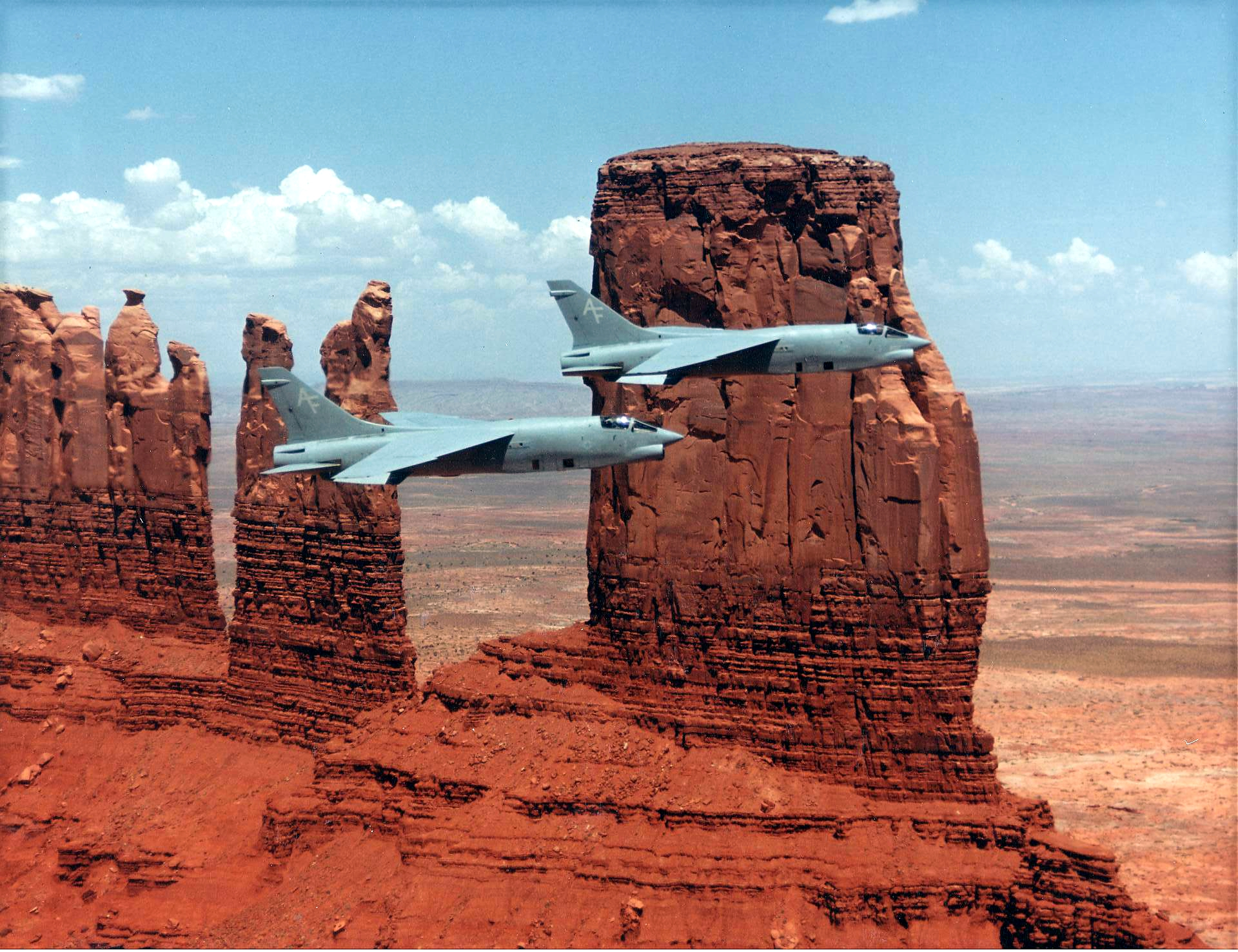 Two U.S. Navy Reserve Vought RF-8G Crusader aircraft of Photographic Reconnaissance Squadron VFP-206 in flight through Monument Valley, Arizona/Utah (USA). The pilots were CDR Chuck Wagner, lead, and LCDR Tim Sullivan.